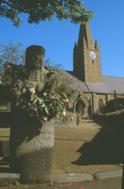 La Gran'mere du Chimquiere and St Martin's church. One of a pair of carved granite menhirs, the other at Castel church. Both are about 400 years old, but this one at the entrance to the churchyard at St Martin has been re-carved, possibly in Roman times. The statue was broken in half in the C19 and is now held together with a metal spike Link . The church is much younger, although it has its origins in 1048 and was built in the C13. The dedication is to St Martin de la Bellouse.